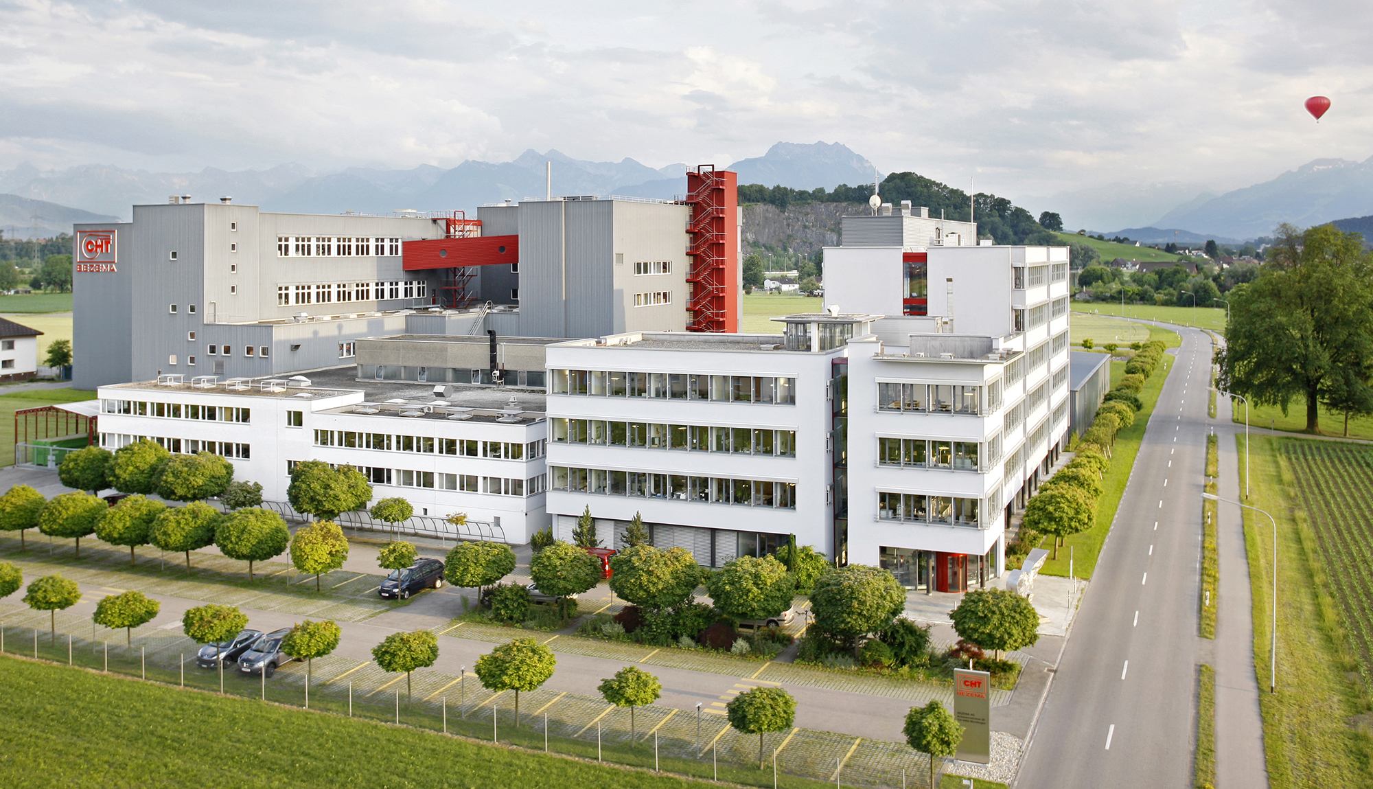 Picture of BEZEMA AG in Montlingen Switzerland